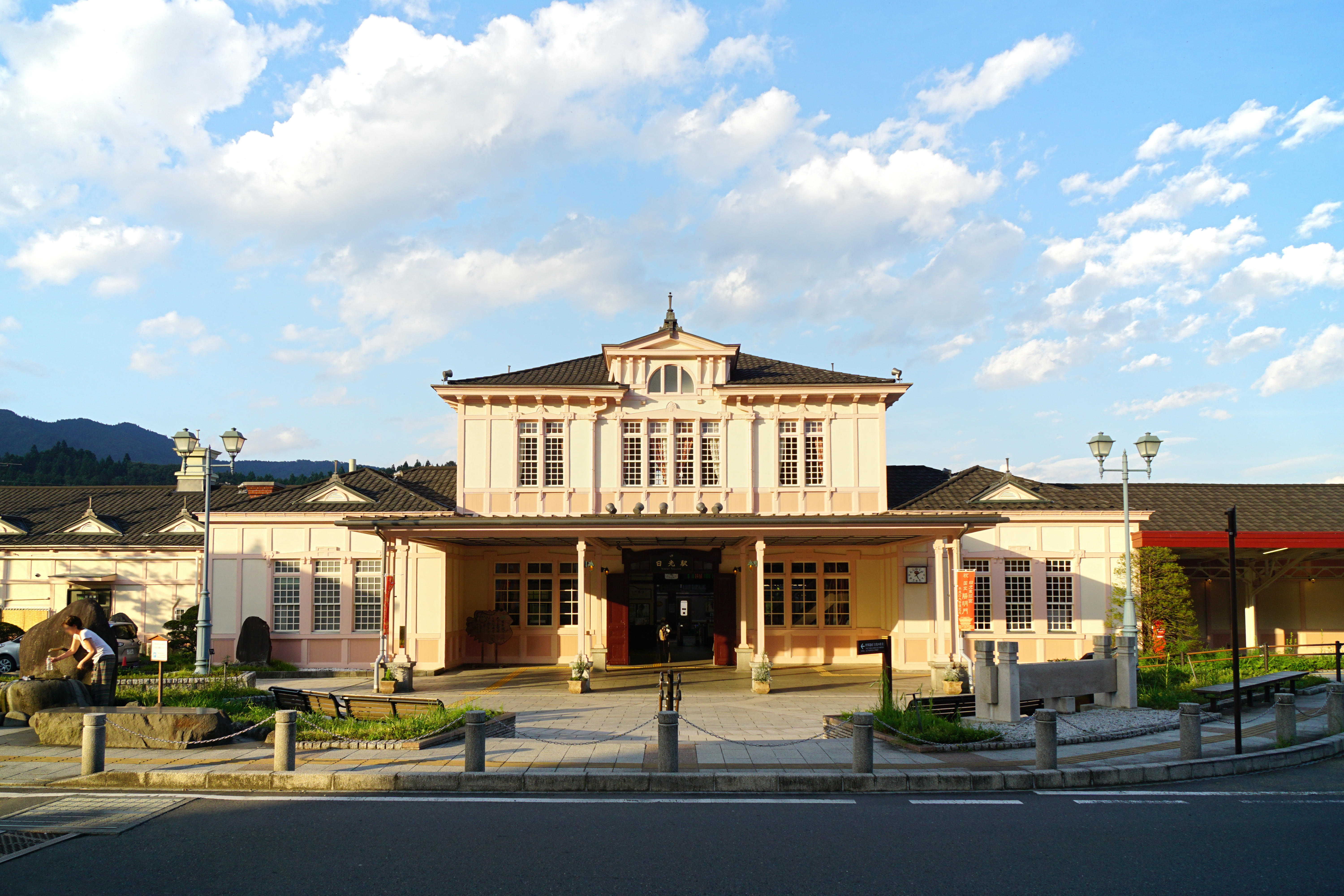 Nikkō Station in Nikko, Tochigi prefecture, Japan